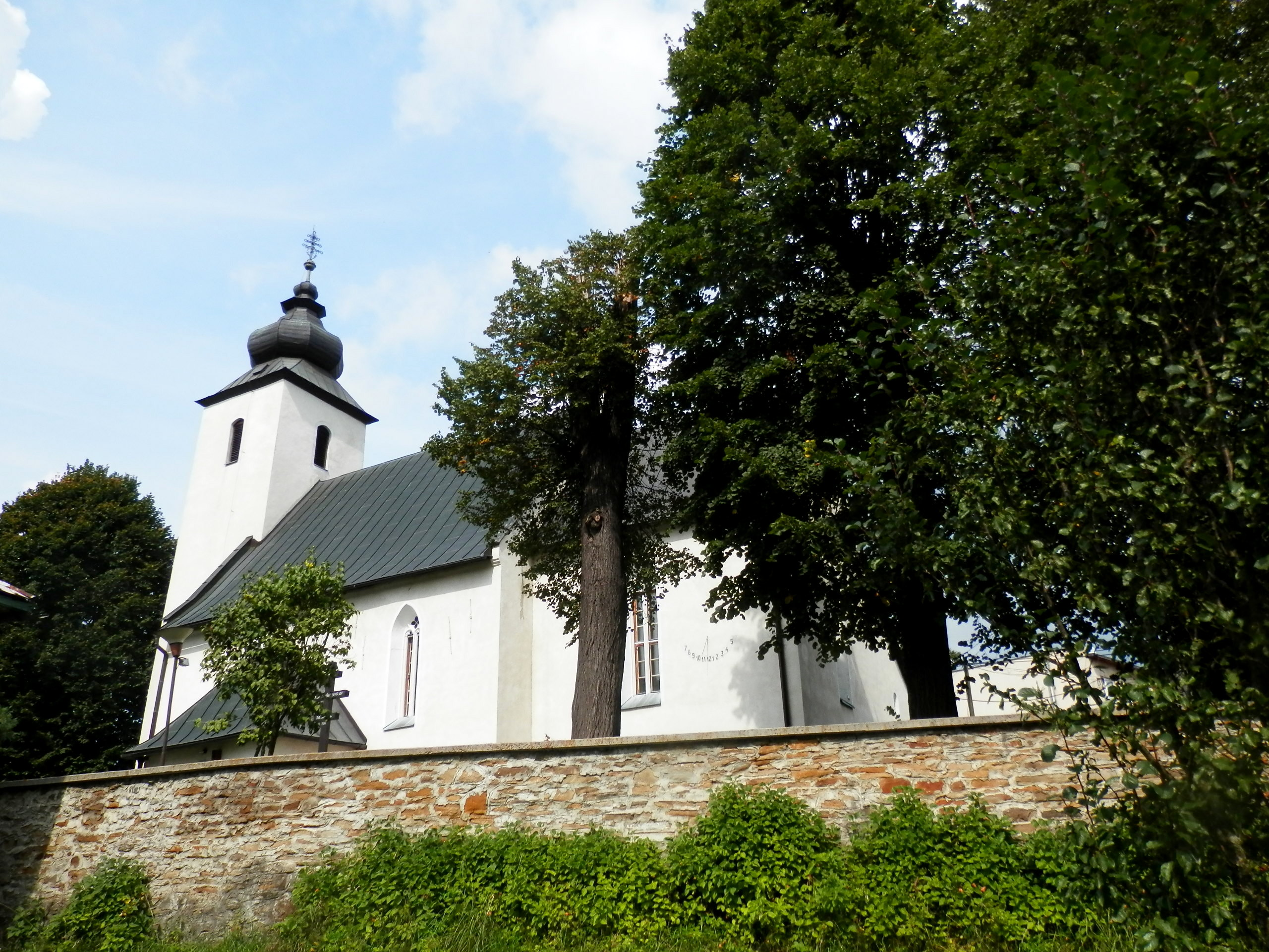 Church of St. Nicholas from 1308 in Oľšavica (Levoča district)